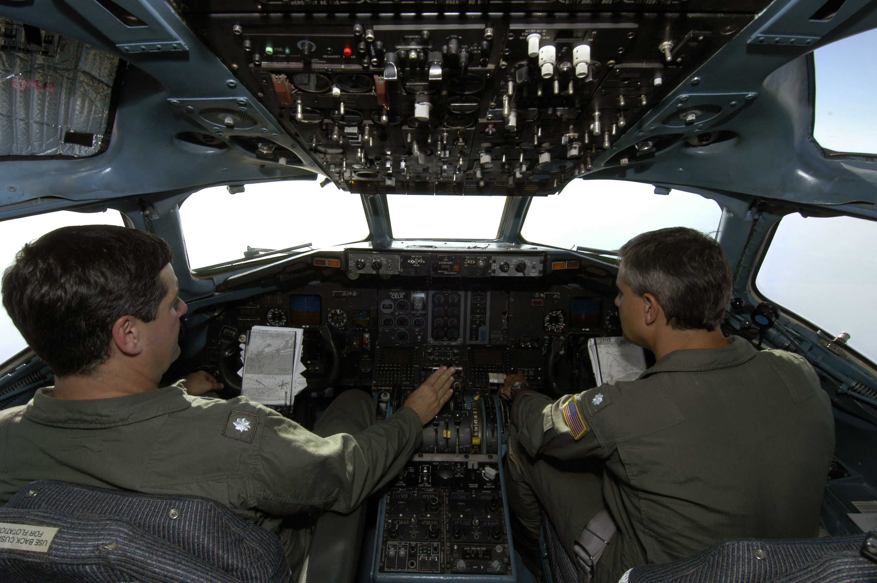 Pensacola, Fla. (Sept. 9, 2005) – U.S. Navy Cmdr. James McSweeney, and Cmdr. Robert Velez, pilot a C-9 Skytrain cargo plane from the Hurricane Katrina staging area at Sherman Field aboard Naval Air Station Pensacola loaded with 25,000 pounds of Meals Ready to Eat (MREs) for the Hurricane Katrina relief effort. The Navy's involvement in the Hurricane Katrina humanitarian assistance operations are led by the Federal Emergency Management Agency (FEMA), in conjunction with the Department of Defense. U.S. Navy photo by Gary Nichols (RELEASED)